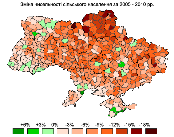 Change of rural population in Ukraine, 2005 - 2010